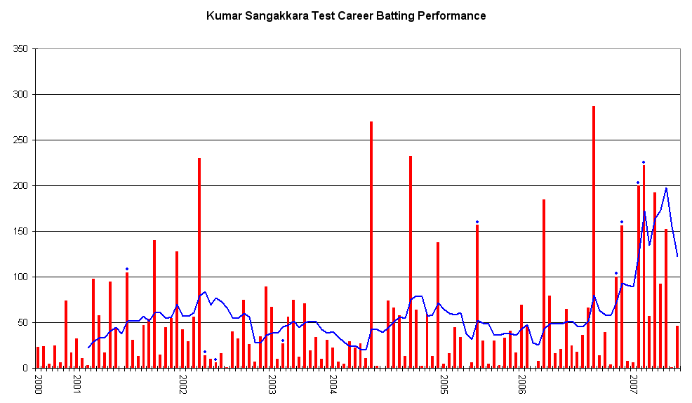 This graph details the Test Match performance of Kumar Sangakkara. It was created by Raven4x4x. The red bars indicate the player's test match innings, while the blue line shows the average of the ten most recent innings at that point. Note that this average cannot be calculated for the first nine innings. The blue dots indicate innings in which Sangakkara finished not-out. This graph was generated with Microsoft Excel 2002, using data from Cricinfo [1] and Howstat [2]. The information in this chart is current as of 23 December 2007.